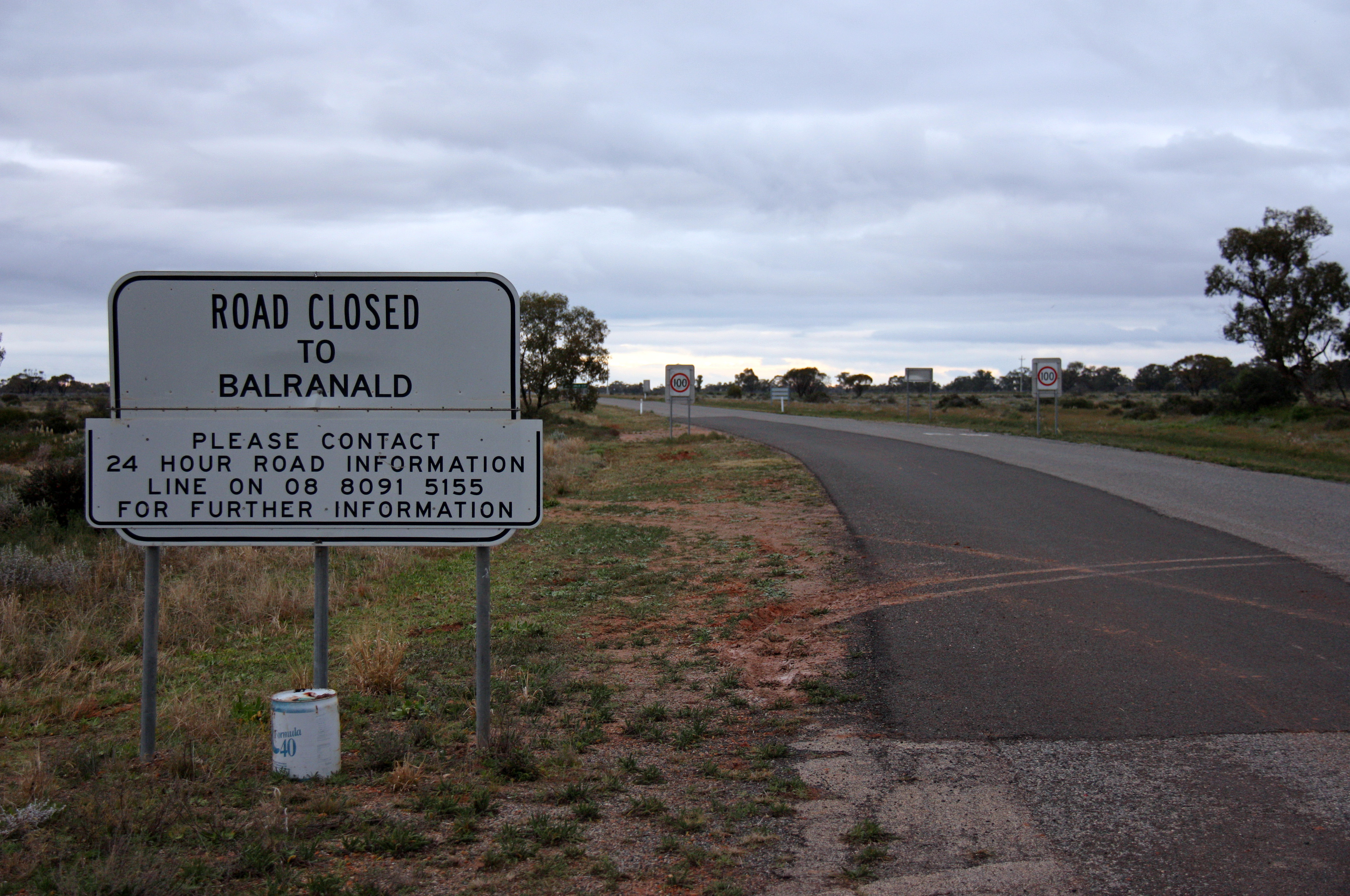 Road closed sign on the Balranald Road at Ivanhoe.